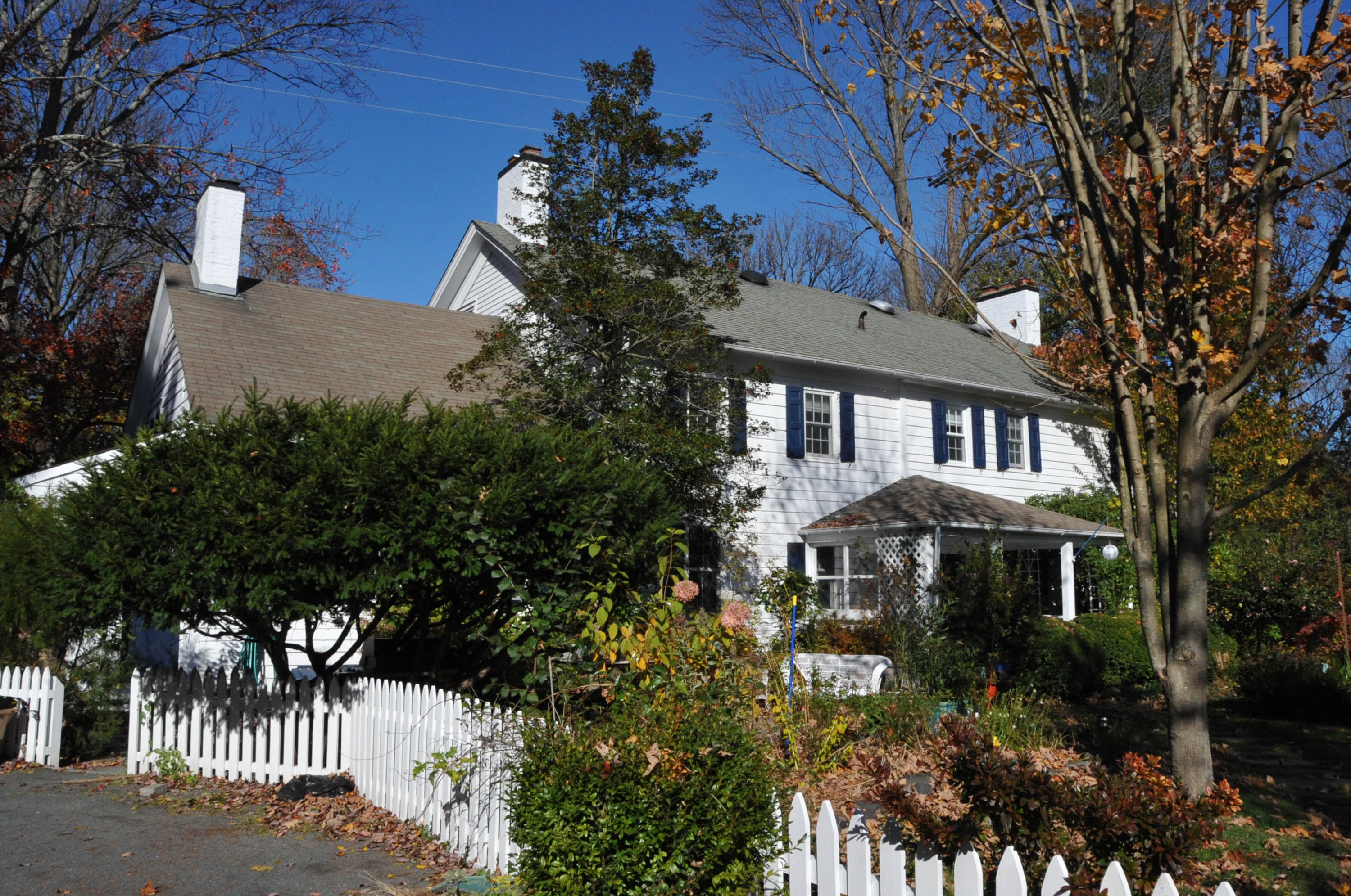 AKA RED MAPLE FARM; BUILT IN 1740 BY JOACHIM GULICK WHOSE FAMILY RAN A STAGE LINE ON THE NEARBY KING’S HIGHWAY IN KINGSTON. THE HOUSE WAS A STOP ON THE UNDERGROUND RAILROAD. SEVERAL ADDITIONS HAVE BEEN MADE TO THE HOUSE THROUGH THE YEARS. IT WAS A BED AND BREAKFAST BUT NOW APPEARS A PRIVATE RESIDENCE